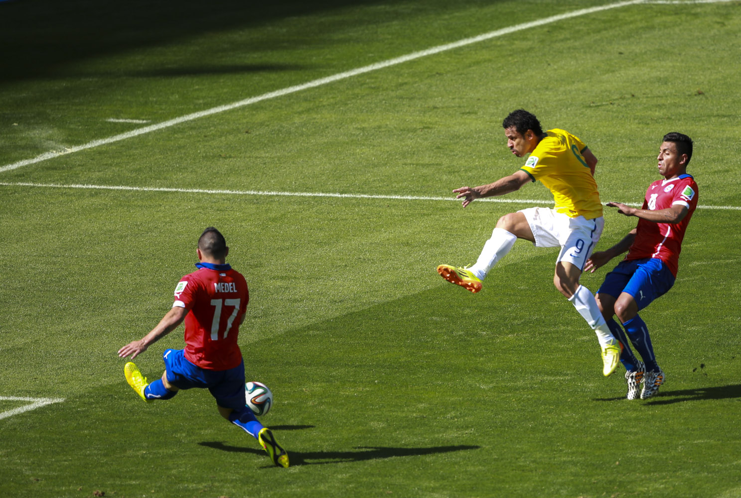 Brazil vs. Chile in Mineirão